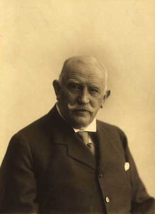 Vilhelm Carl Casper Joachim Ove Bendt Wedell(-Wedellsborg) (1840-1922), Danish Count and estate owner